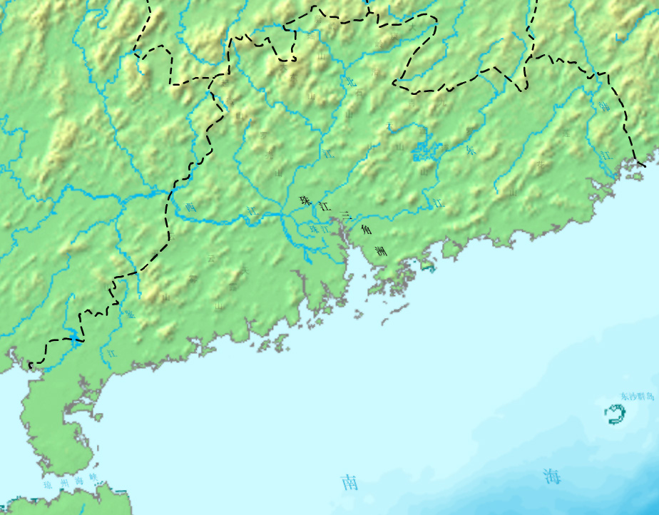 Map of the Pearl River Basin watershed—drainage basin section in Guangdong Province. In Guangdong provinces, Southeastern China. Includes the Pearl River, and its tributaries: Xi River, Bei River